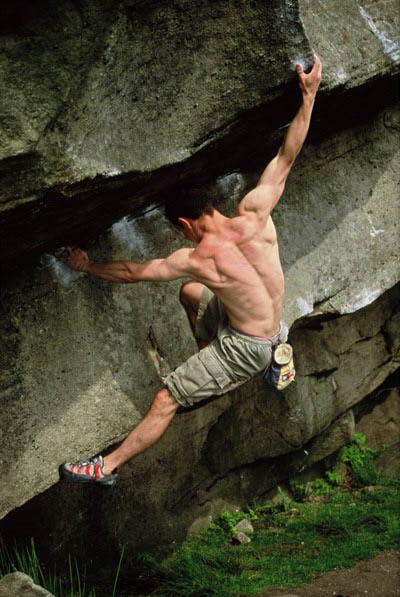 Bouldering Bouldering on Remergence Buttress, Burbage North